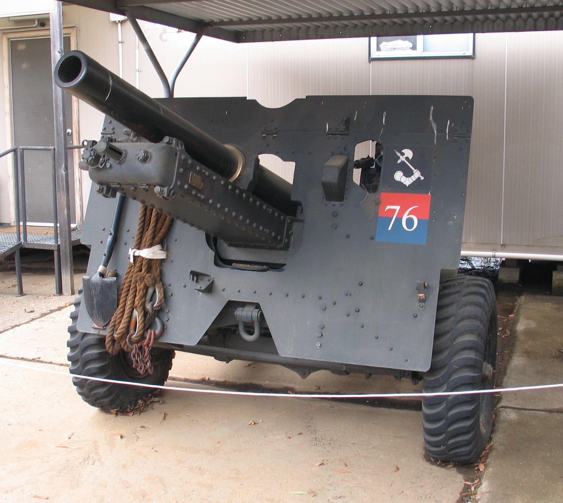 QF 25 pounder gun-howitzer, in the Royal Australian Armoured Corps Tank Museum, Puckapunyal, Victoria, Australia.